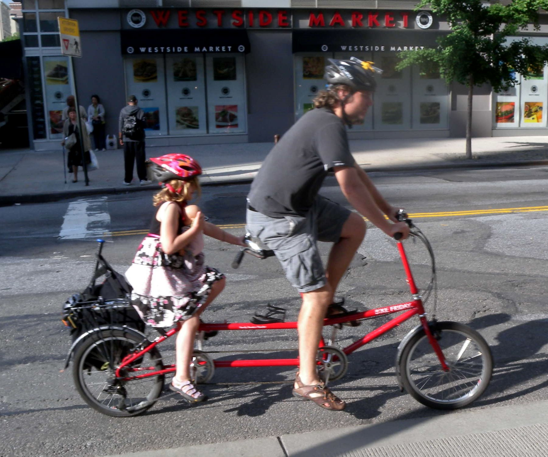 Looking north at Traveler coming to a stop at 110th St west of Broadway on a mostly sunny afternoon. See also File:Friday Traveler CP W87 jeh.jpg.